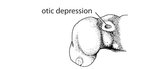 Standard Event System character depiction